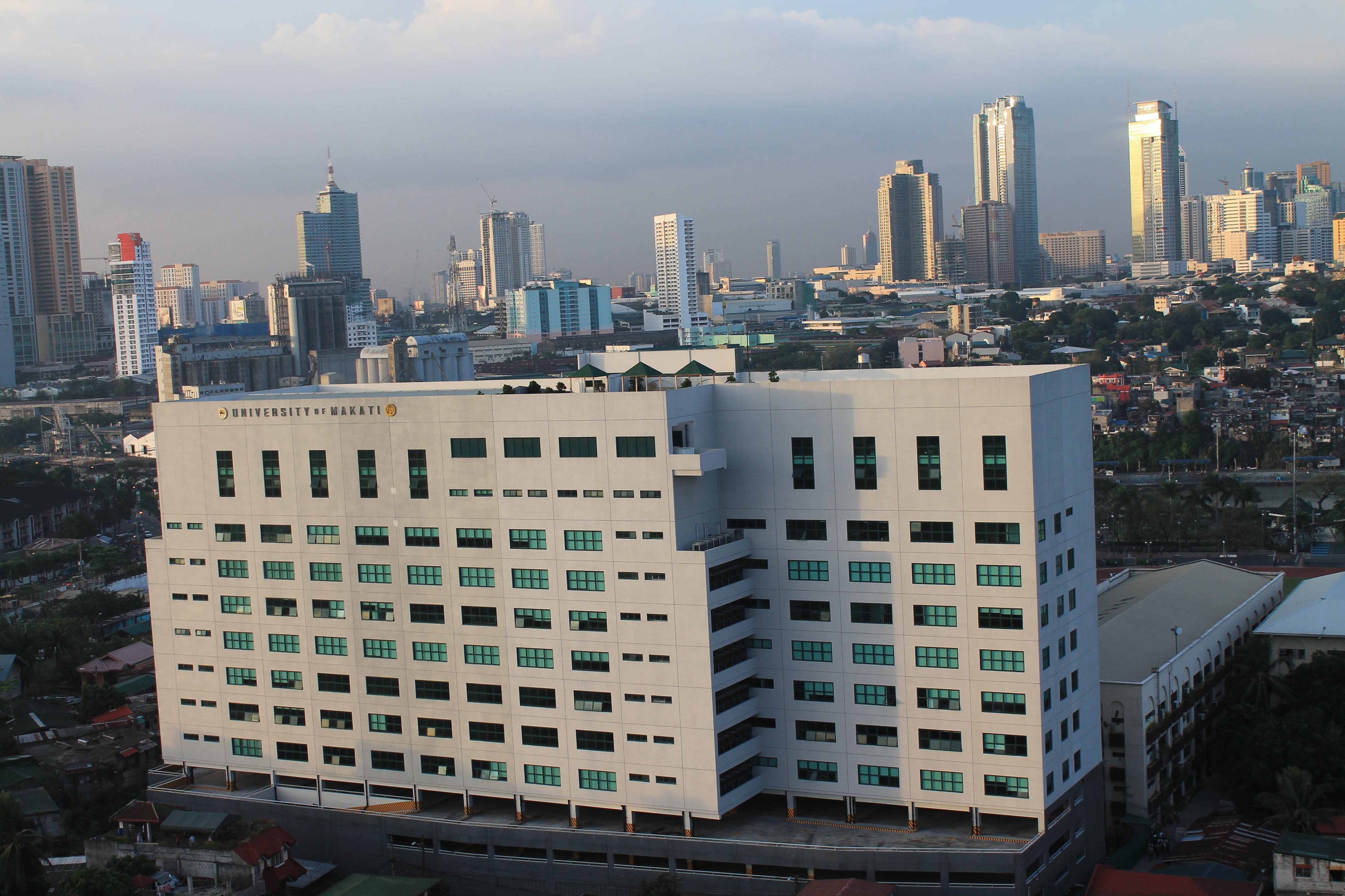 University of Makati is located along Kalayaan Road, Makati City